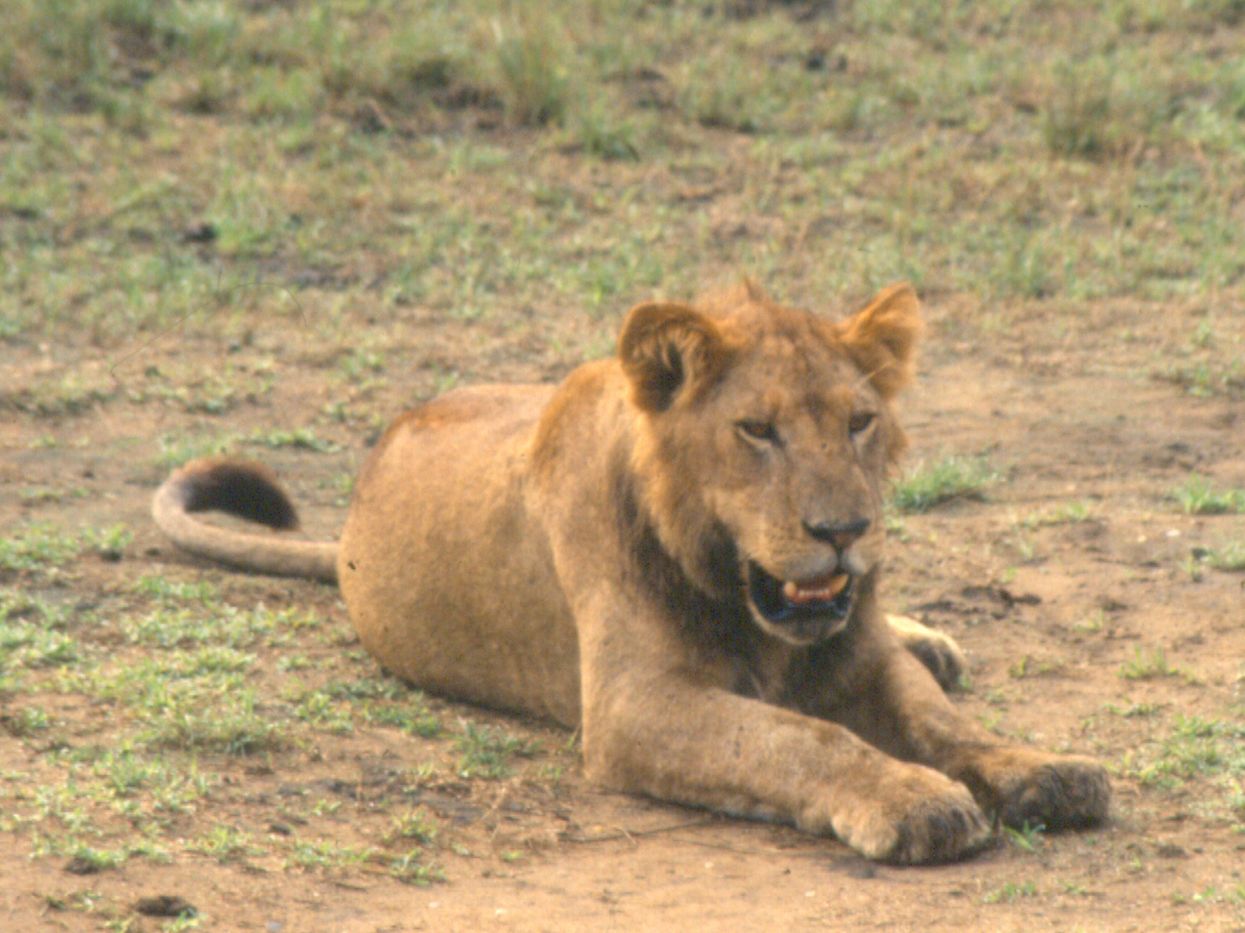 Lionness resting in the Virunga National Park, near the Rwindi Station. The Virunga National Park (formerly Albert National Park) lies from the Virunga Mountains, to the Rwenzori Mountains, in the eastern Democratic Republic of Congo, bordering Volcanoes National Park in Rwanda and Rwenzori Mountains National Park in Uganda. The lion (Panthera leo) is one of four big cats in the genus Panthera, and a member of the family Felidae. They typically inhabit savanna and grassland, although they may take to bush and forest. Lions are unusually social compared to other cats. The lion is an apex and keystone predator, although they will scavenge if the opportunity arises. Digitized slide.